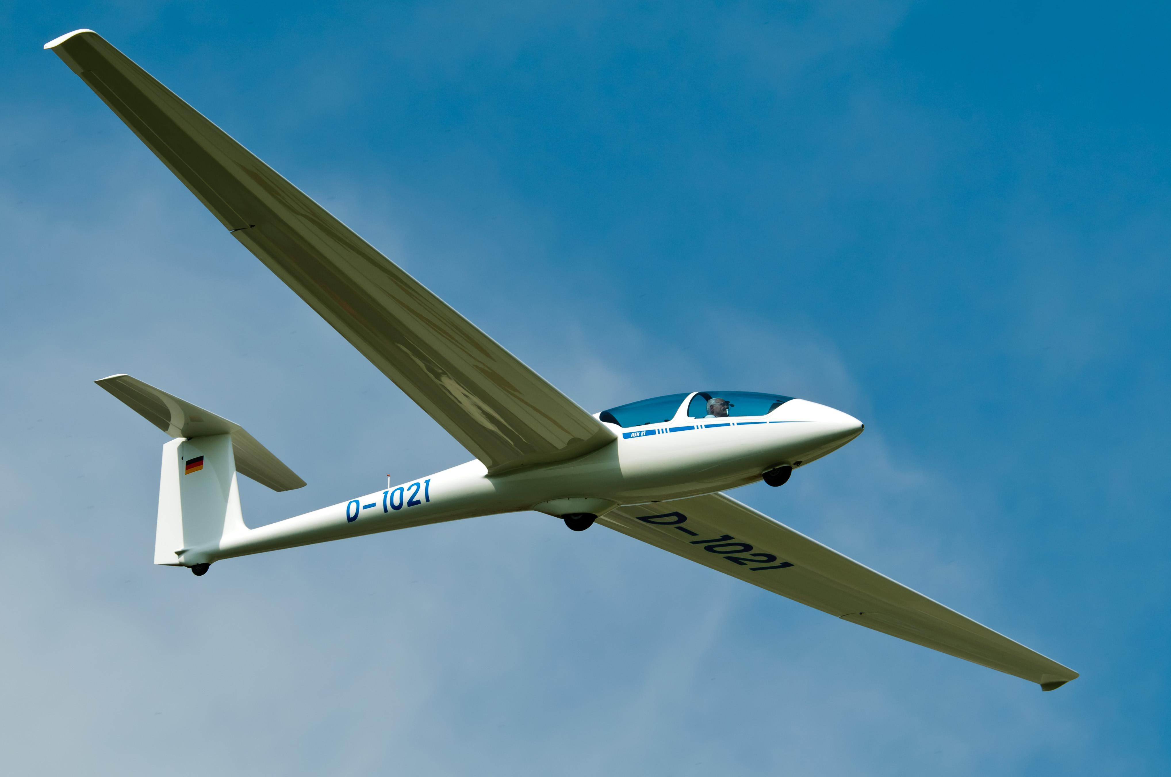 Landing ASK 21